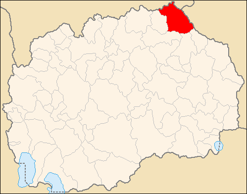 municipality Kriva Palanka in eastern Republic of Macedonia, Locator maps